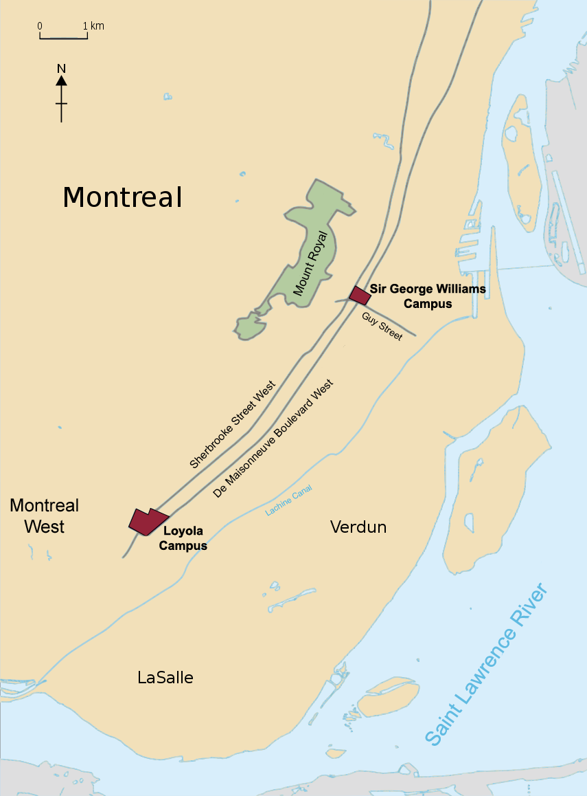 This map illustrates the location of Concordia University's two campus in Montreal.